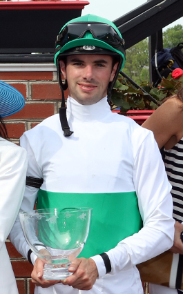 Jockey Florent Geroux at Pimlico in 2016